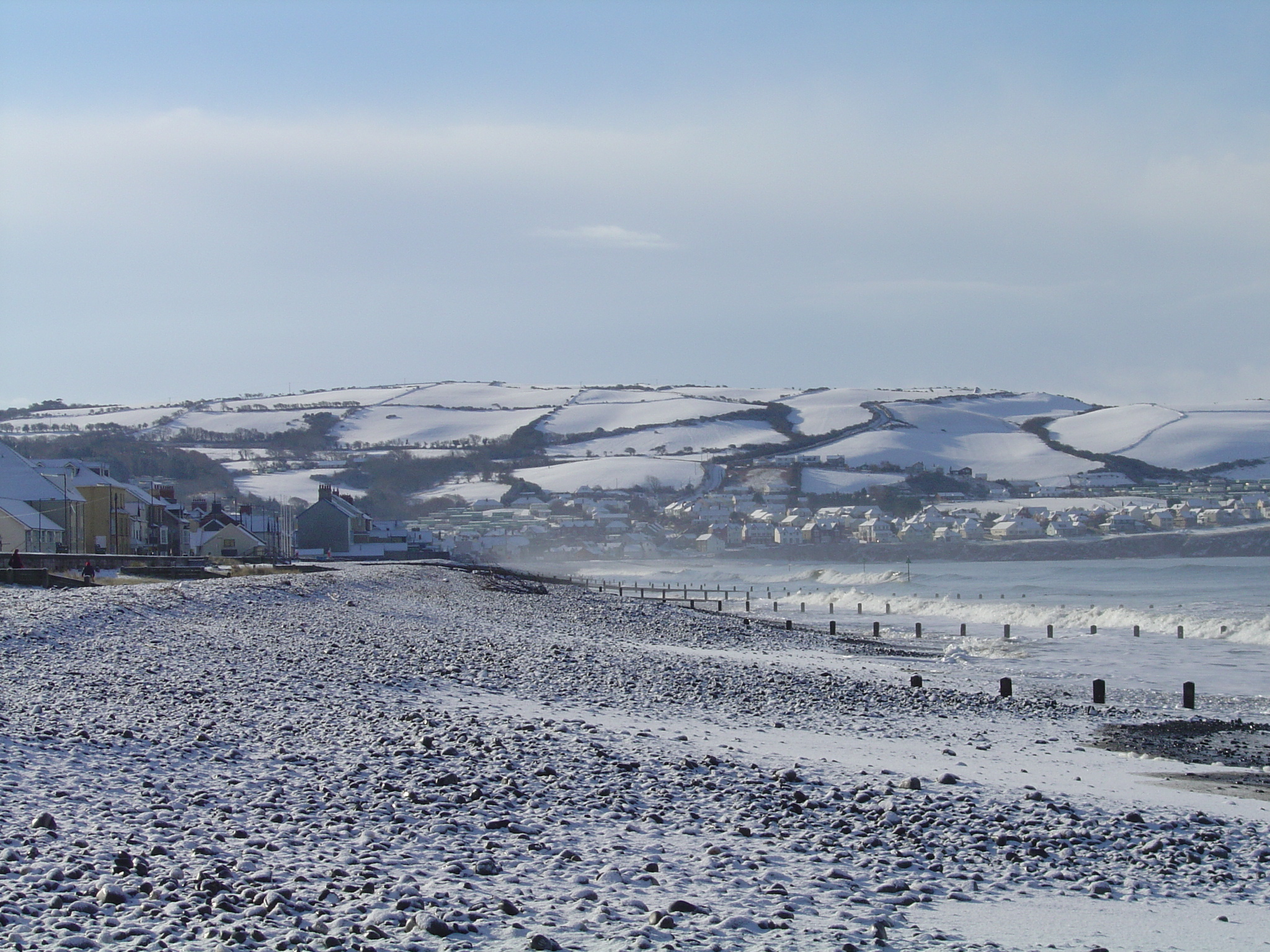 The beach at Borth, Wales, in the snow